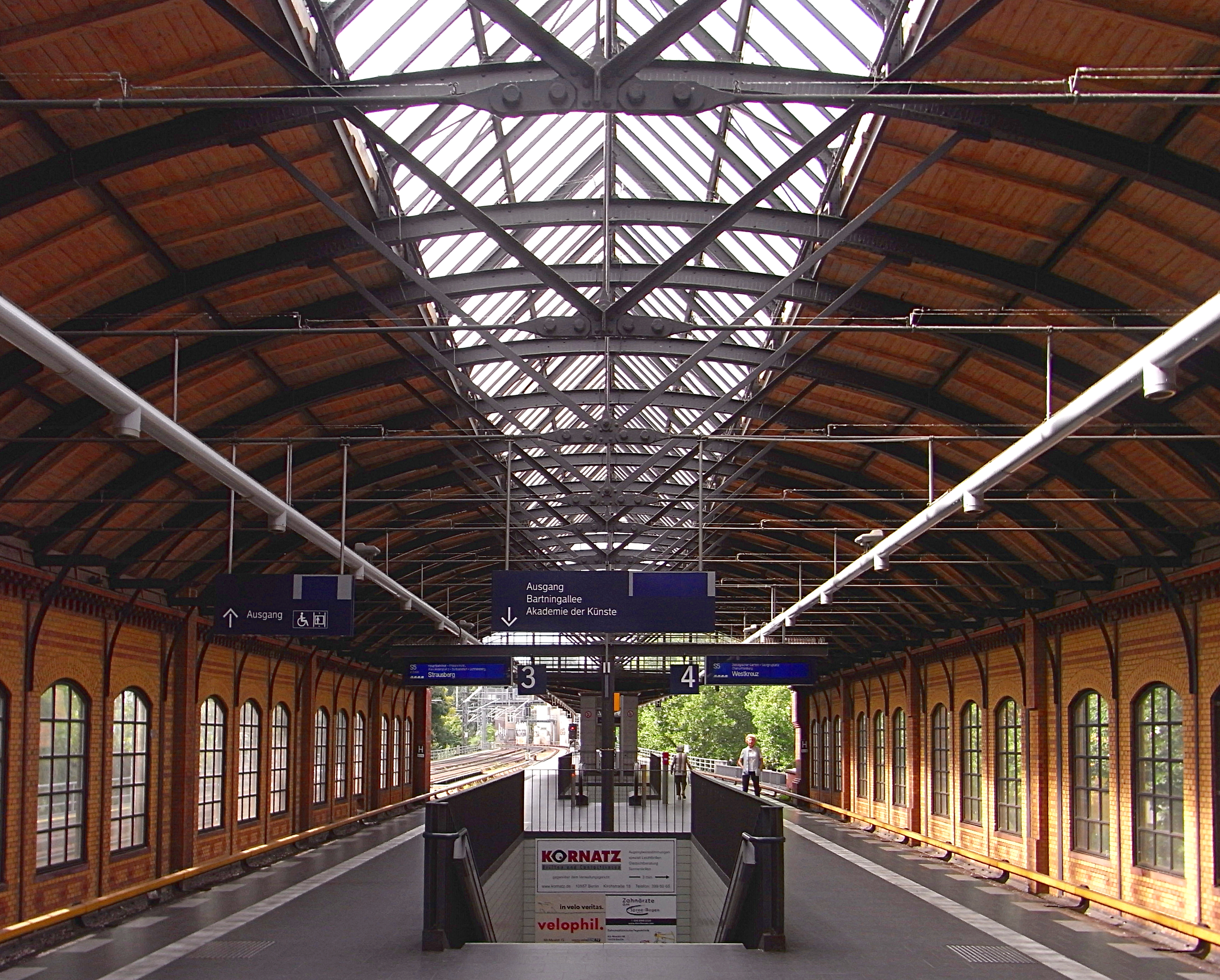 S-Bahn station Bellevue, platform. Built from 1875 to 1882, 1987 reconstructed true to original, modernized in 1995, reopened in 1997.